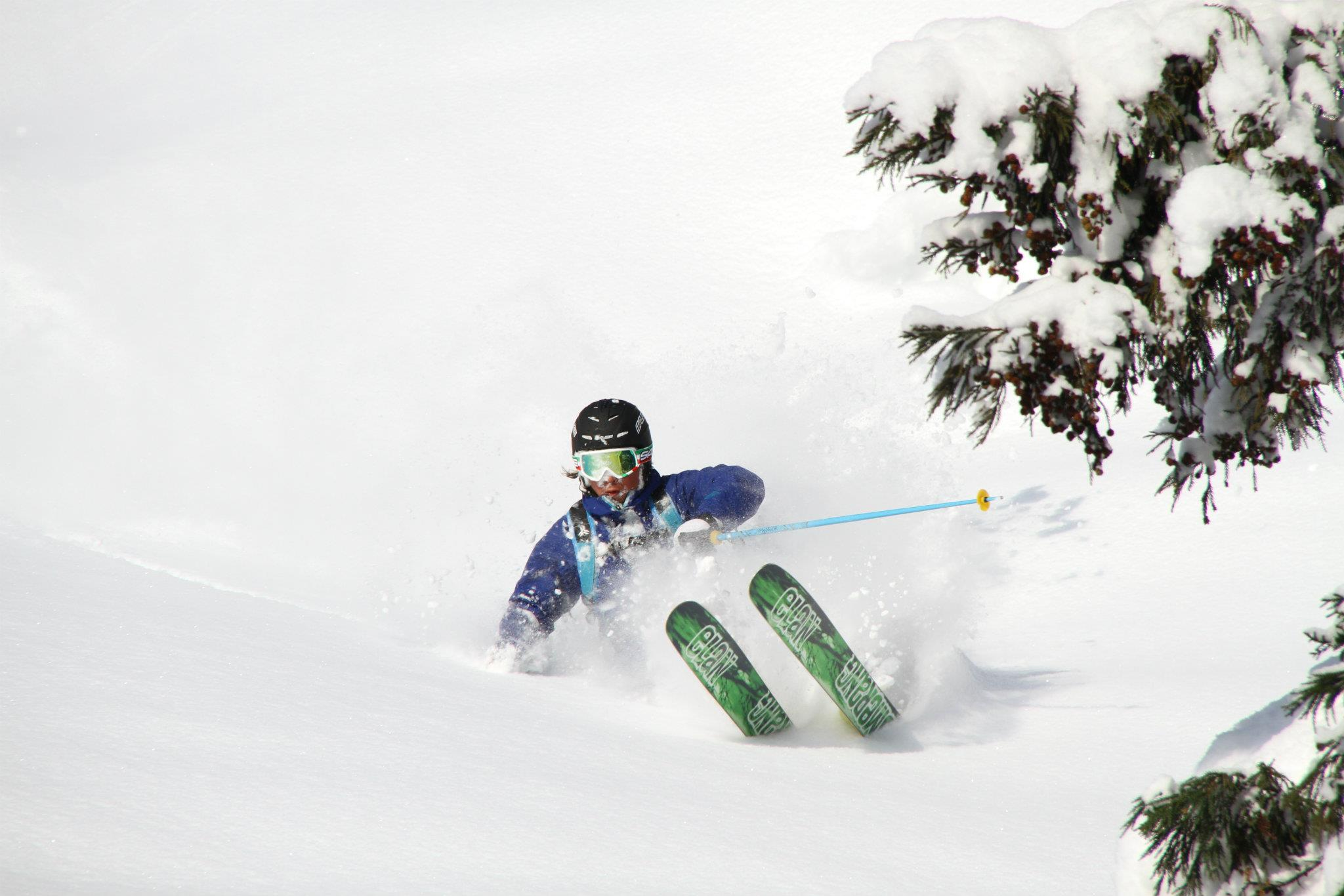 AWSOME POW SHOT